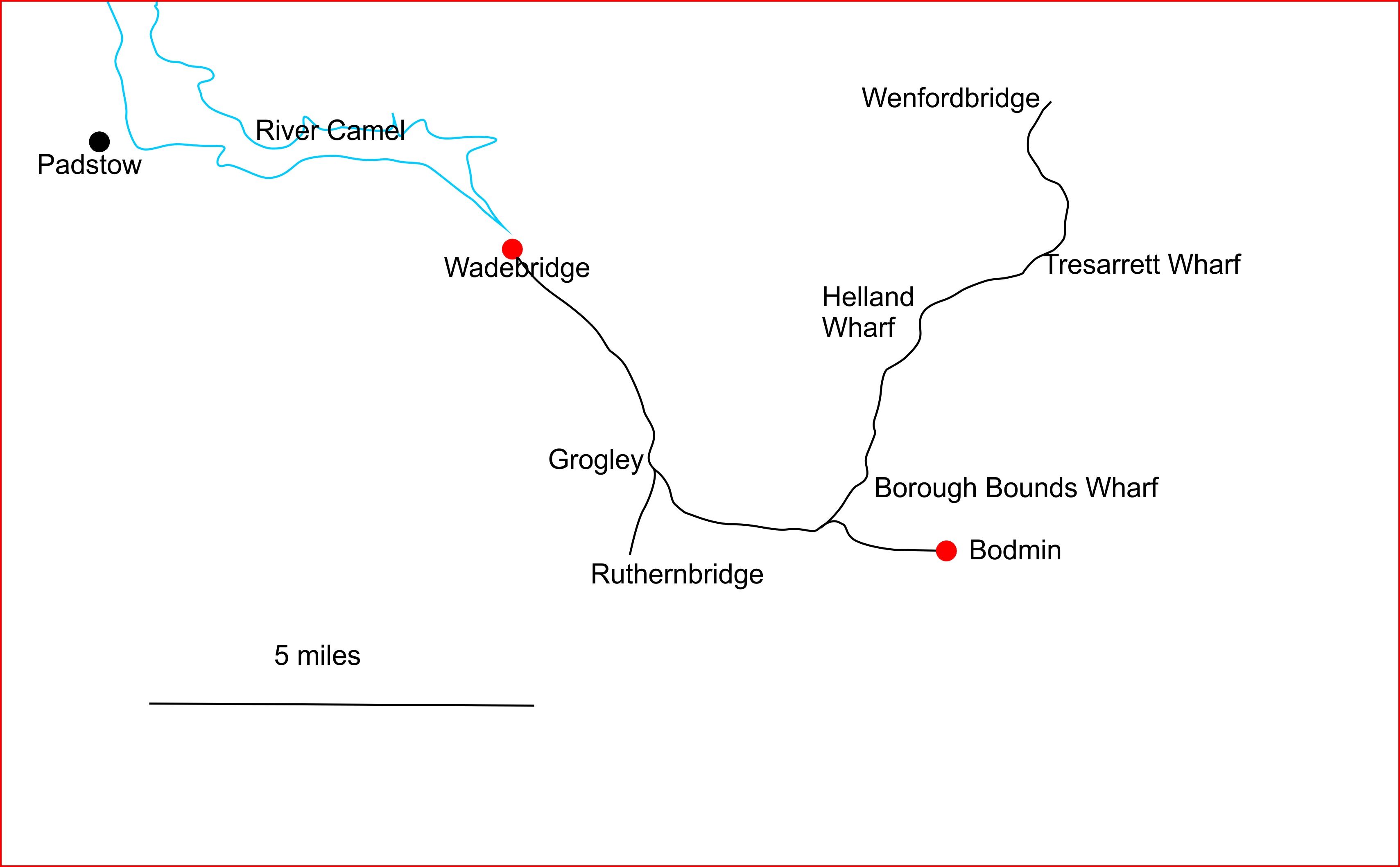 Map of Bodmin & Wadebridge Railway at original opening